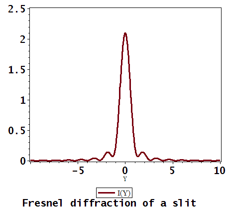 Fresnel diffraction of a slit